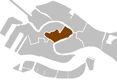 districts of Venice - San Polo.